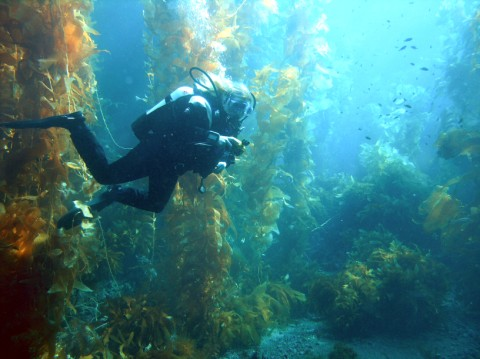 Pam my best dive buddy -- look at the kelp forest, why I dive California